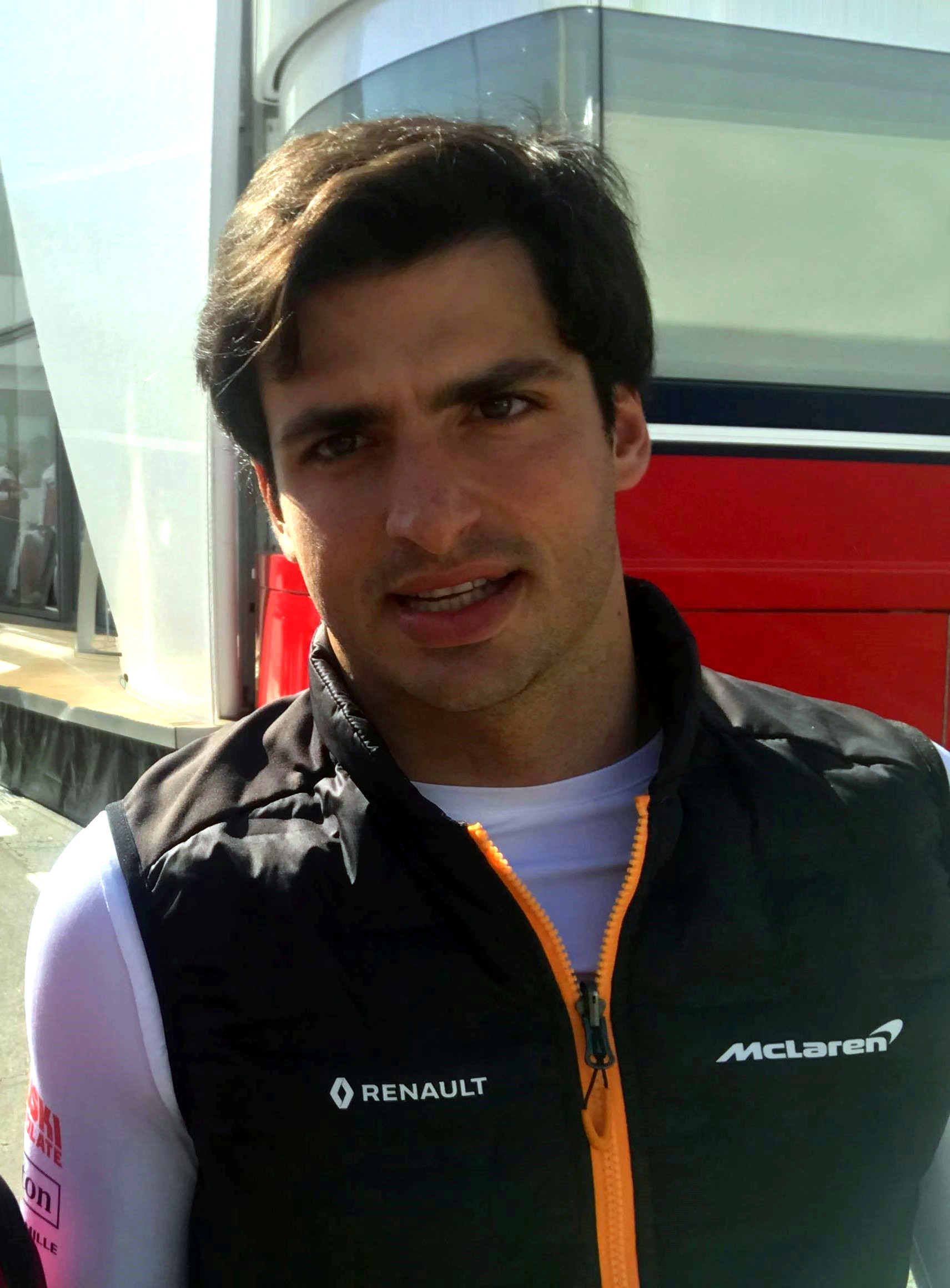 2019 Formula One tests Barcelona, Sainz.